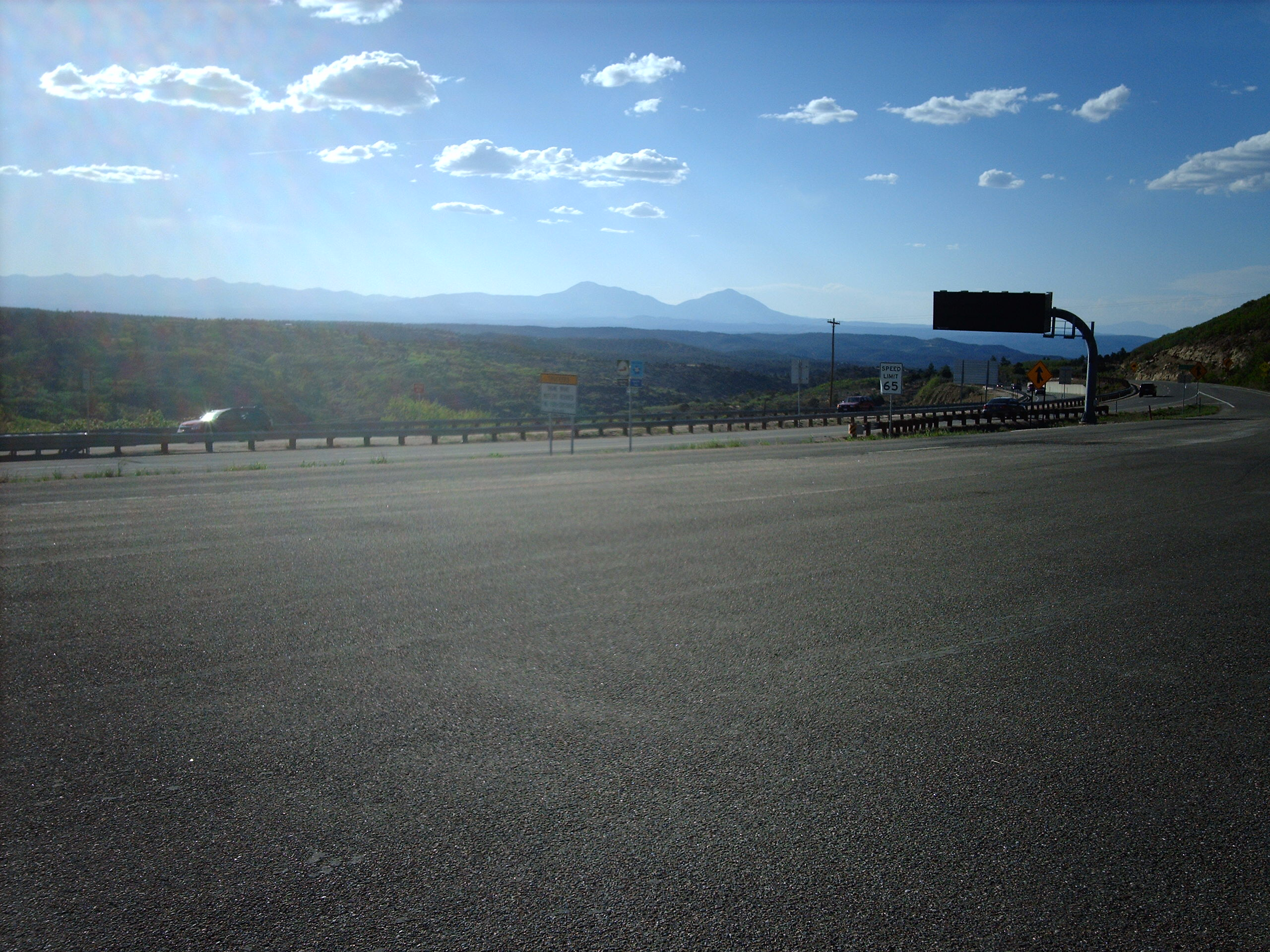 Raton Pass from I-25looking northwest towards Cuchara Mountains in Colorado.